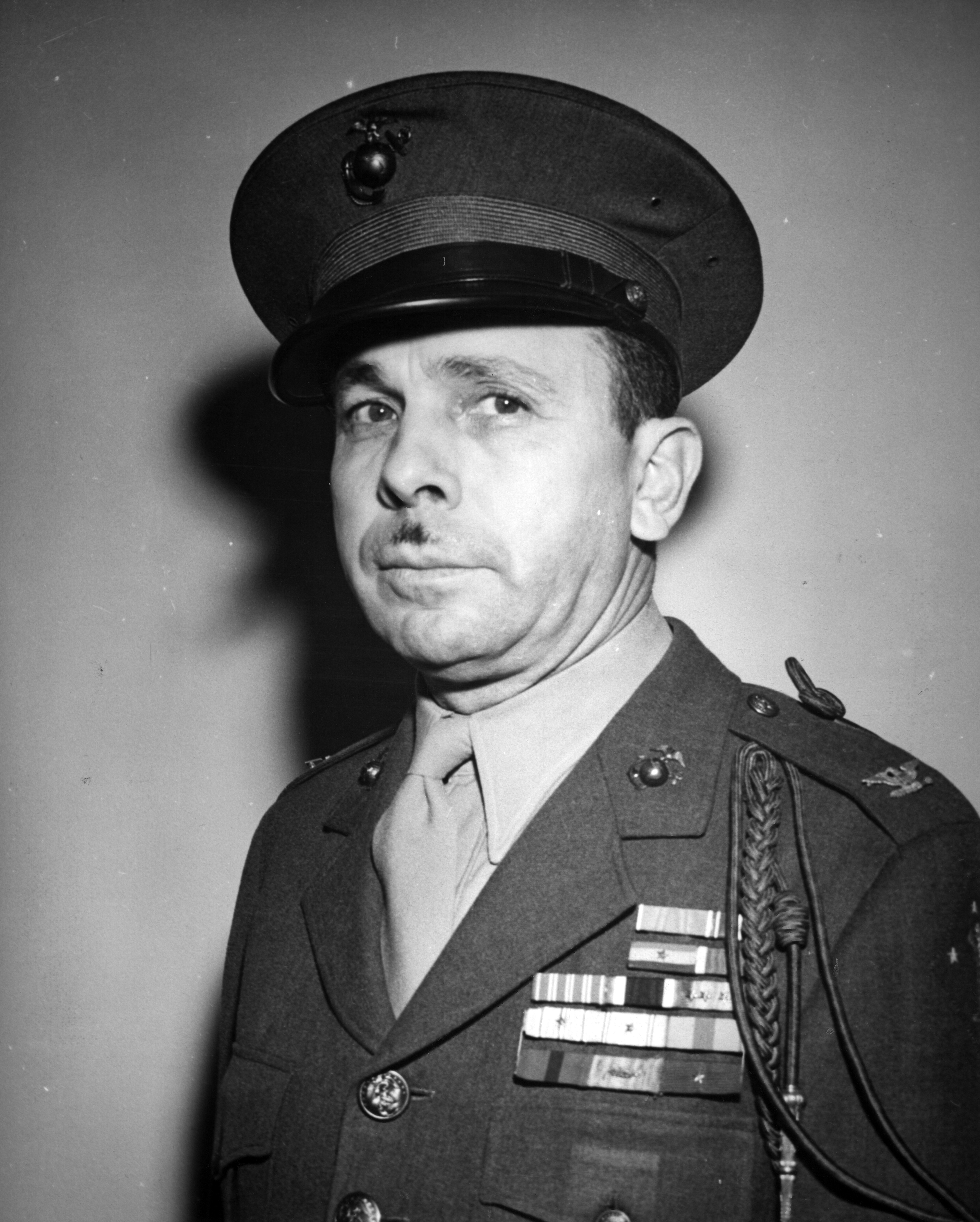 Amor LeRoy Sims (May 29, 1896 - November 30, 1978) was a highly decorated officer of the United States Marine Corps with the rank of Brigadier General, who is most noted as Commanding Officer of 7th Marine Regiment during World War II. He also served as Chief of Norfolk Police Department from 1949 to 1952.